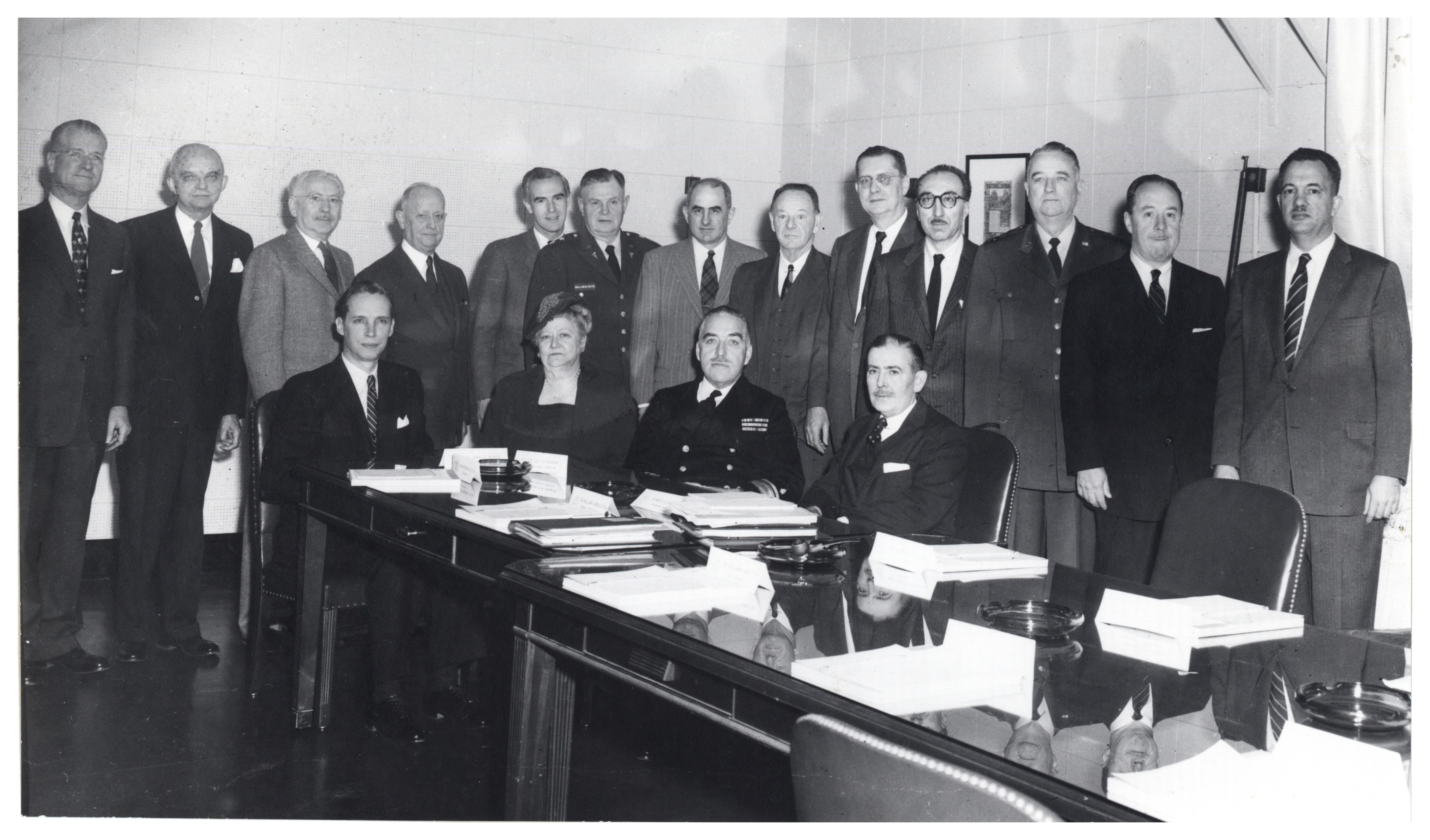 Image caption on page 64 of the book US National Library of Medicine: "First meeting of the National Library of Medicine Board of Regents, March 20, 1957, at the Army Medical Museum in the 'Old Red Brick.' Front row, seated, from left: Leroy E. Burney, MD, US Surgeon General; Mary Louise Marshall, Director of the Medical Library of Tulane University; Rear Admiral B. W. Hogan, Surgeon General, US Navy; L. Quincy Mumford, 11th Librarian of Congress. Back row, standing, from left: Ernest Volwiler, PhD; Jean A. Curran, MD; Benjamin Spector, MD; William S. Middleton, MD; John T. Wilson, MD; Major General S. B. Hays, MD, US Surgeon General; Basil G. Bibby, DMD, PhD; Worth B. Daniels, MD; Champ Lyons, MD; Michael E. DeBakey, MD; Major General D. C. Ogle, MD, Surgeon General, US Air Force; Thomas Francis, Jr., MD; Lt. Colonel Frank B. Rogers, MD. During the meeting, one of the primary agenda items was to determine a new permanent location of the library. Those present discussed the pros and cons of approximately ten locations. As part of the following meeting, on April 29, 1957, most of the regents took a bus tour of several of the locations before ultimately deciding, with the encouragement of Michael DeBakey, to house the library on the campus of the National Institutes of Health in Bethesda."